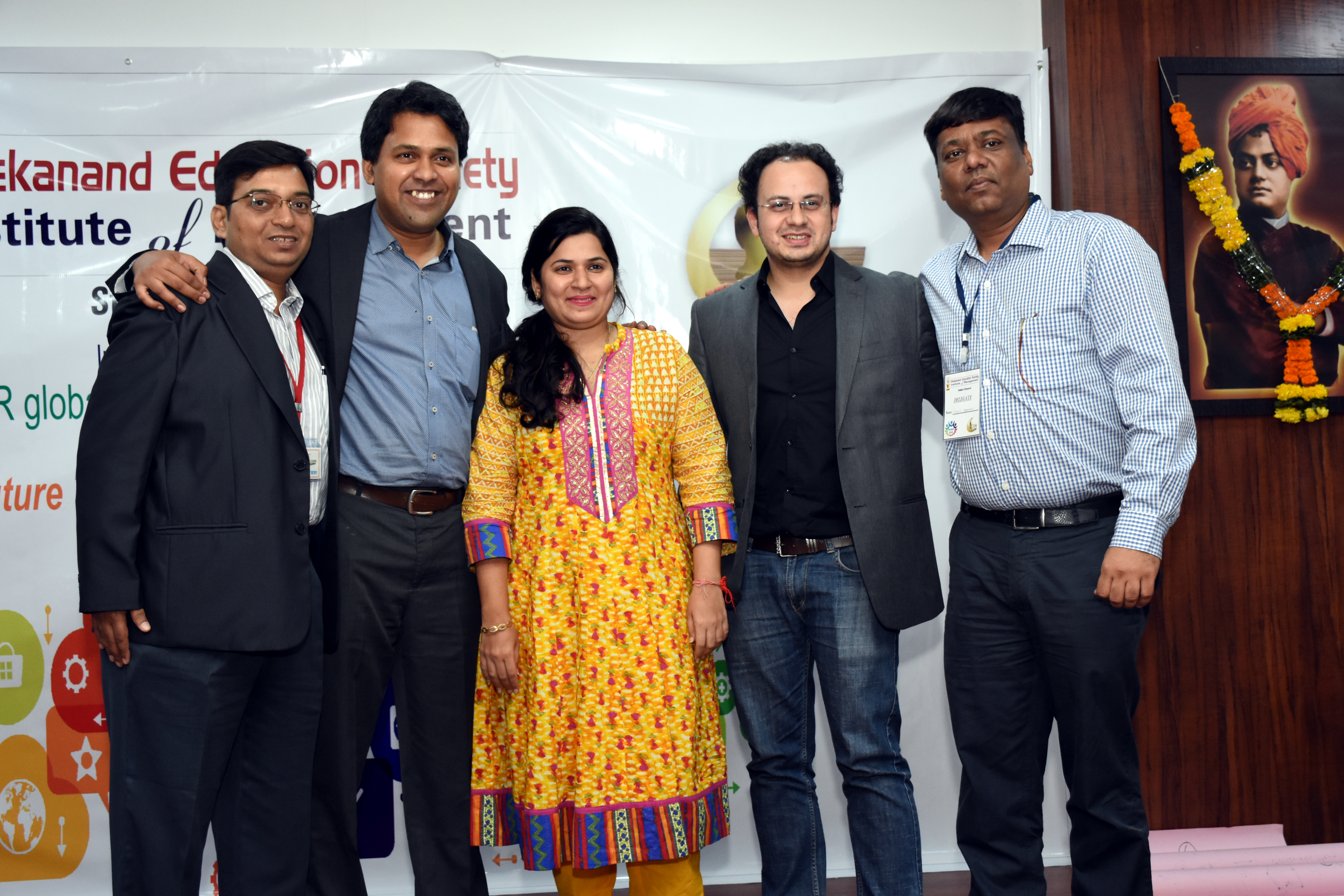 Branding head Ms. Hetal Palan of (VESIM) Vivekanand Education Society's Institute of Management Studies and Research with the founders of MTHR Global